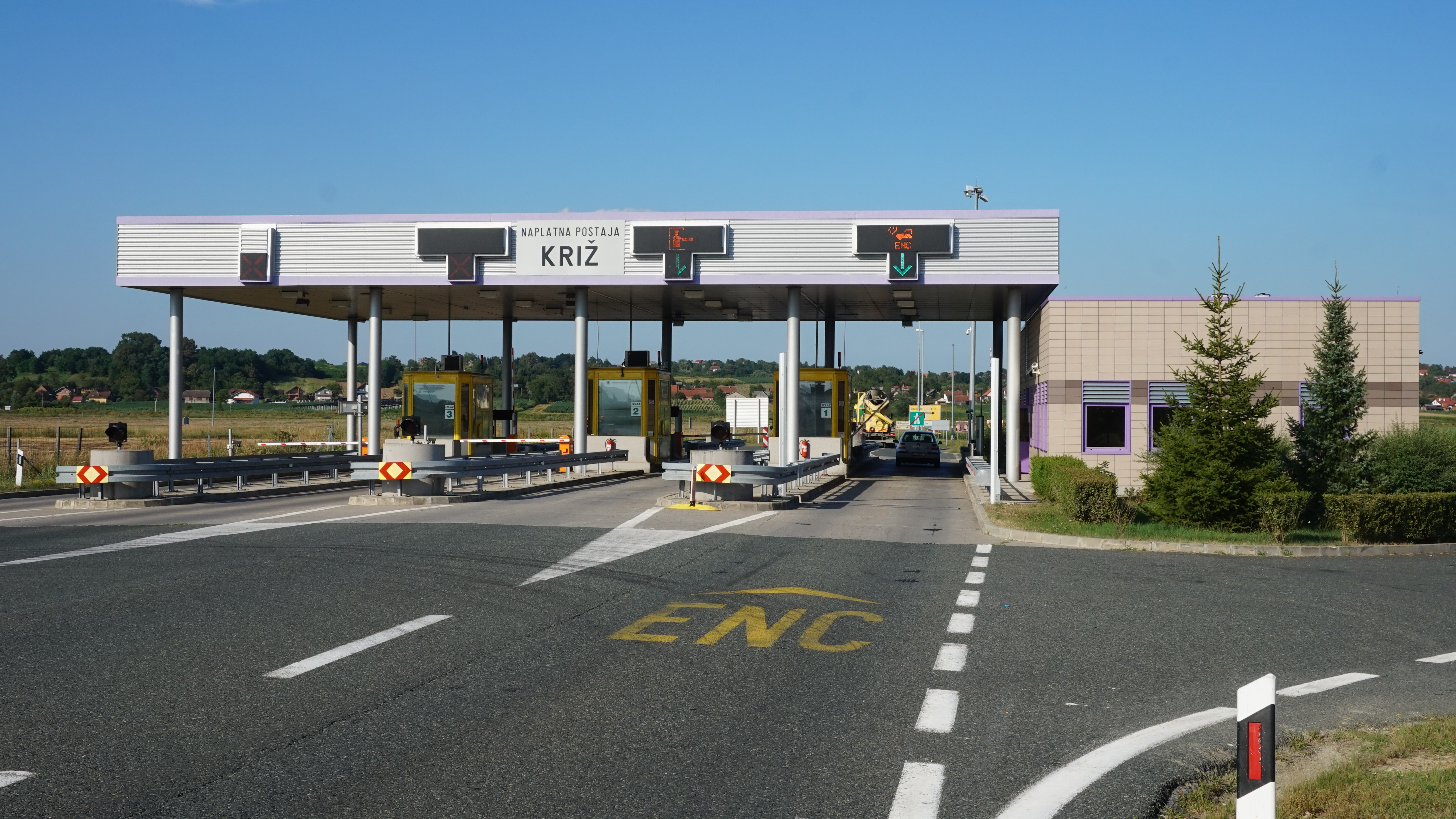 Križ toll gate on Motorway A3, Croatia